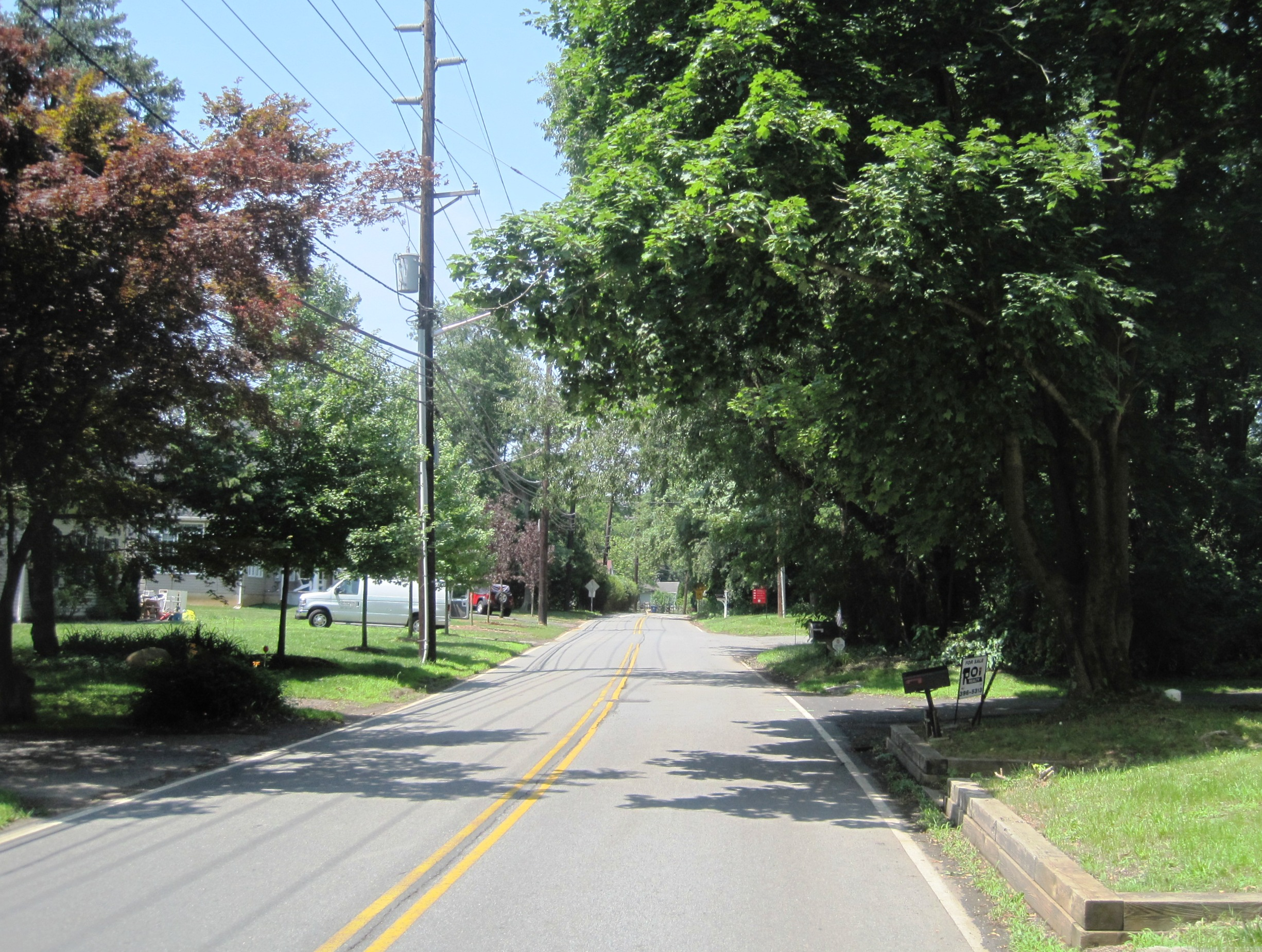 Photo of the unincorporated community of Lewisville, New Jersey within Lawrence Township, Mercer County. Photo taken along westbound Lewisville Road.